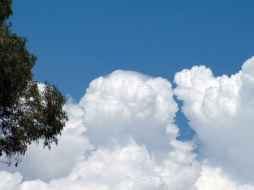 Pileus on a Cumulonimbus cloud over Wagga Wagga, New South Wales, Australia Because this photograph concerns privacy since this was taken on a private property, only an approximate location is provided: Wagga Wagga, New South Wales, Australia